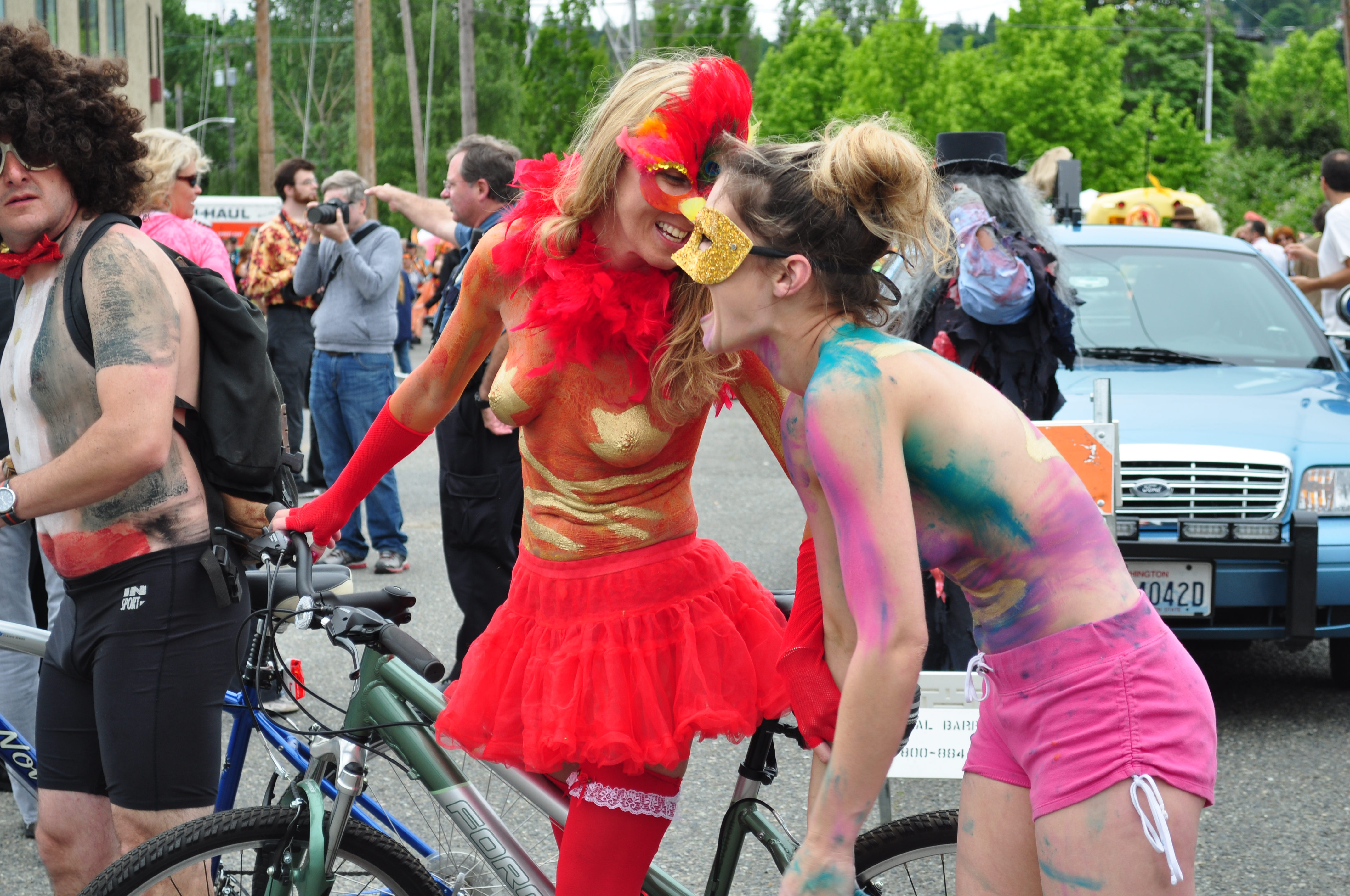 Preparing for the 2012 Solstice Parade, Fremont, Seattle, Washington.